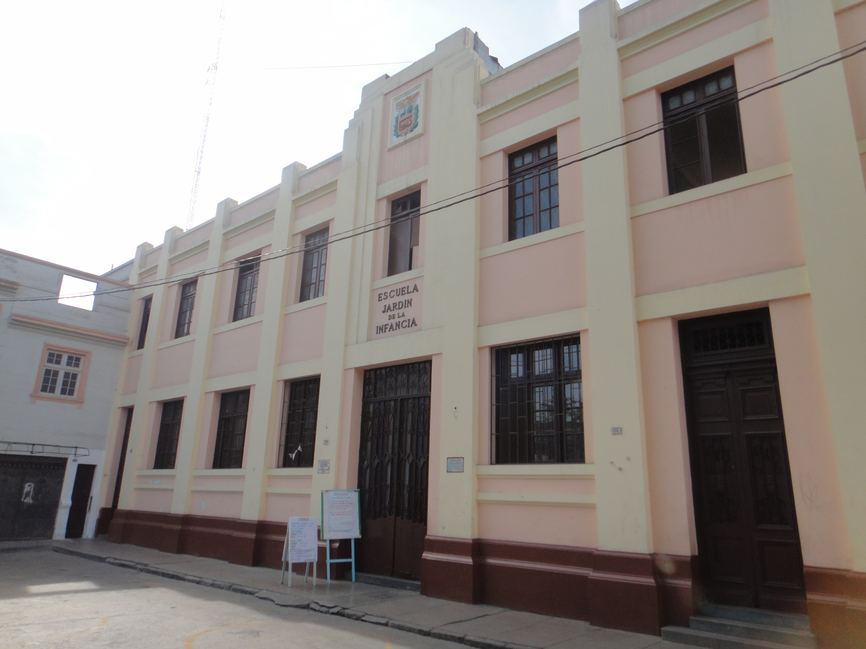 Kindergarten - Park of the Reserve in St.Beatriz - Lima, Peru.